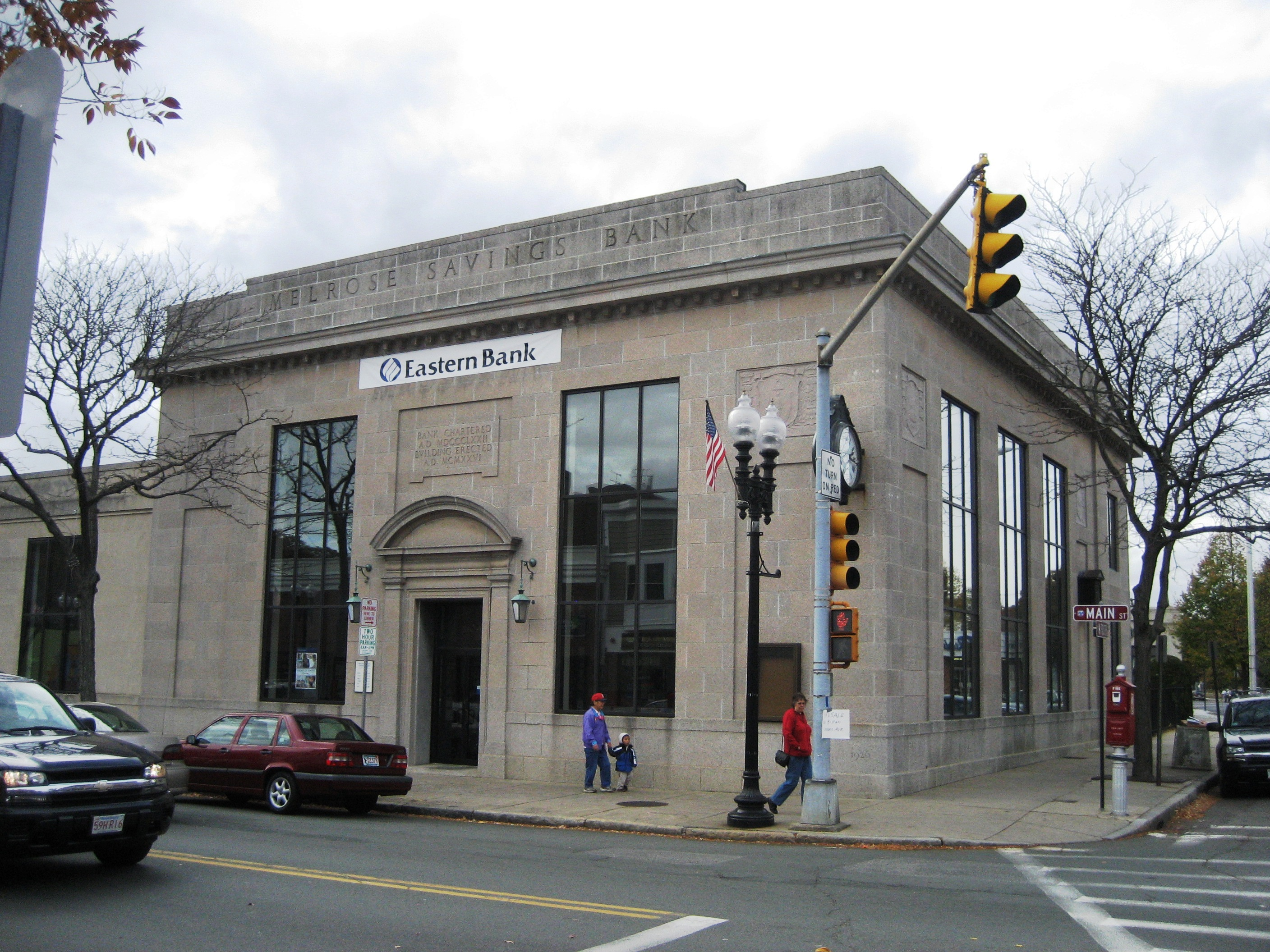 Former MASSBANK location on Main Street in Melrose, operating as an Eastern Bank shortly after Eastern's purchase of the bank chain. Currently vacant, but will soon reopen as a TD Bank.